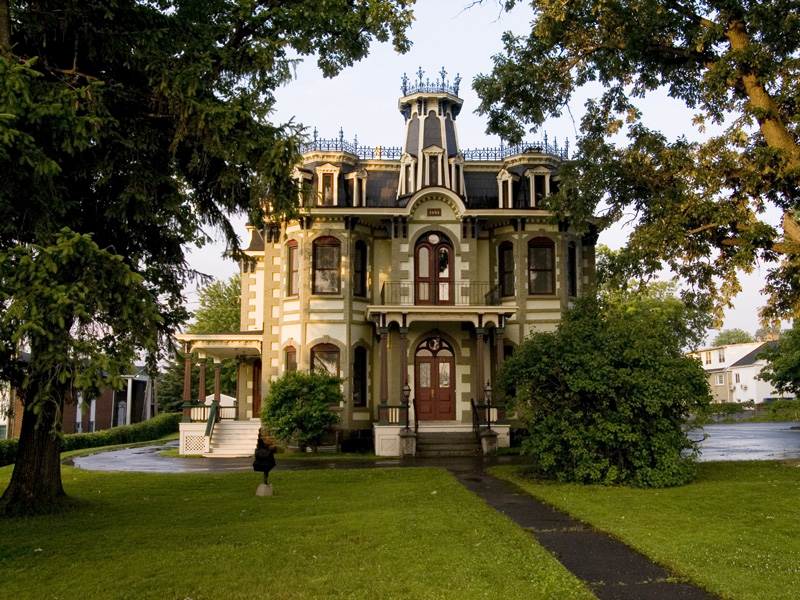 George-Knight-Nesbitt House, 215 Du Sud Street, Cowansville, Quebec, Canada.